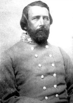 John B. Grayson, Brigadier General in the Confederate Army, Mississippi Department of Archives and History